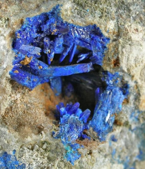 Linarite Locality: Grand Reef Mine (Aravaipa Mine; Lead Jewel; Joe Rubal Mine; Vivian Mine; Calistoga Mining & Development County Mine; Bringham Silver and Lead Mine), Laurel Canyon, Grand Reef Mountain, Klondyke, Santa Teresa Mts, Aravaipa District, Graham County, Arizona, USA (Locality at ) Size: 11.4 x 10.9 x 8.2 cm. Brilliant blue linarite crystals aesthetically line a well-placed, 2.1 x 2.0 cm vug in cabinet rhyolite on this excellent and showy specimen from the Grand Reef Mine of Arizona. This piece is notable, in that the crystals are fairly large for the locality, up to 1.1 cm. Highly desirable, older material, seldom seen on the market.